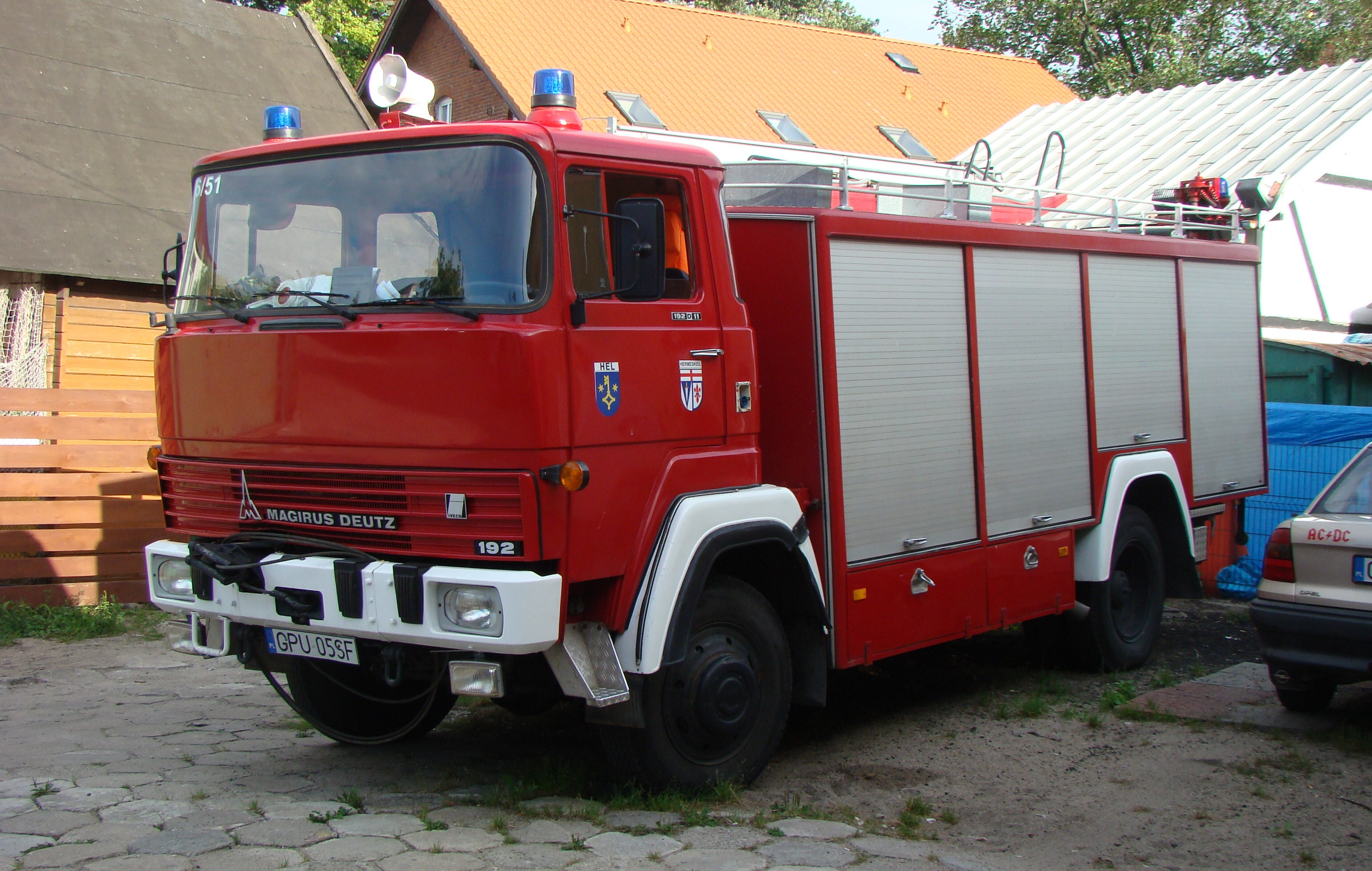 Magirus-Deutz fire engine of Voluntary Fire Brigade (OSP) in Hel, Poland.